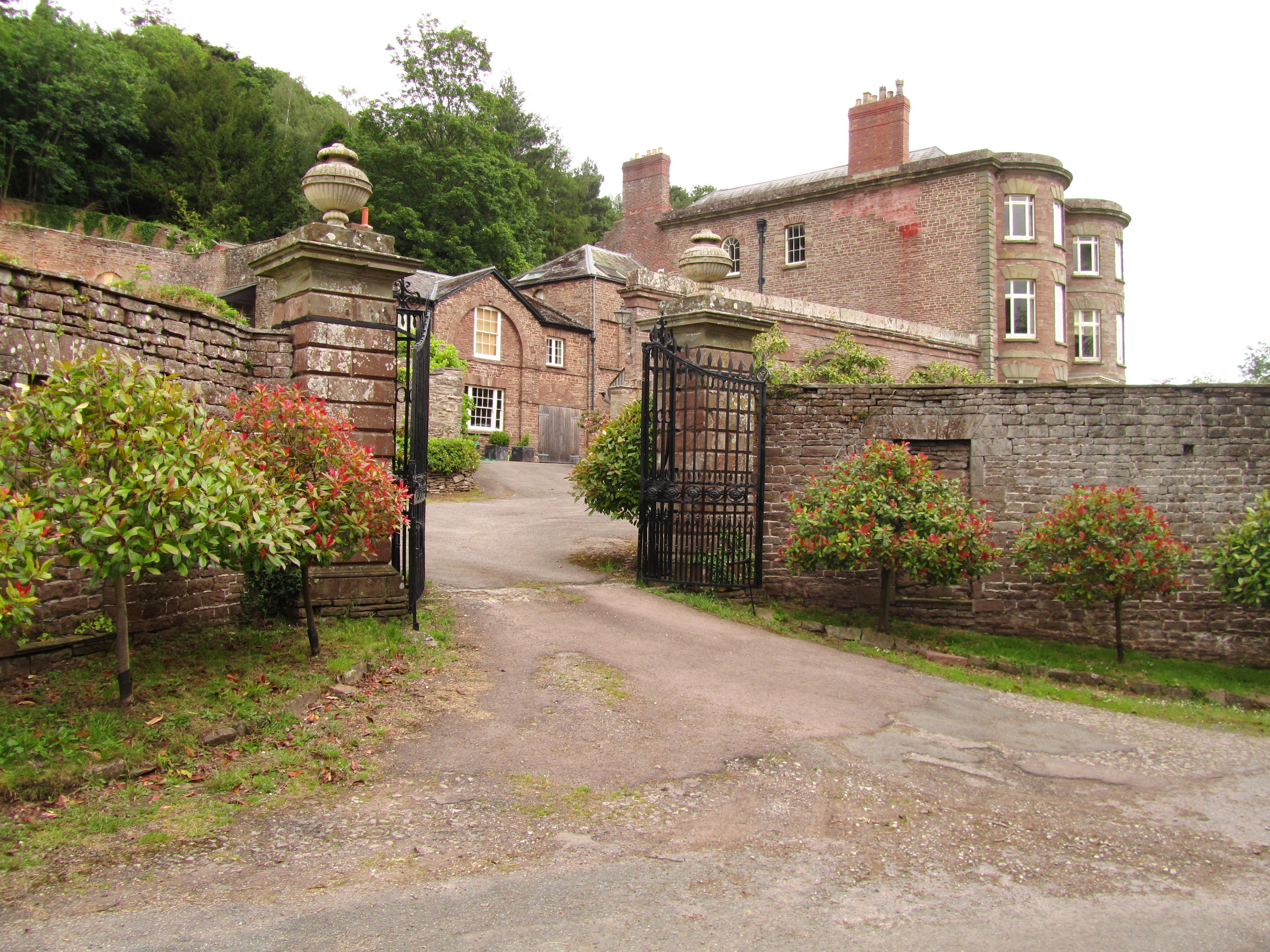 Newton Court, near Monmouth in Wales